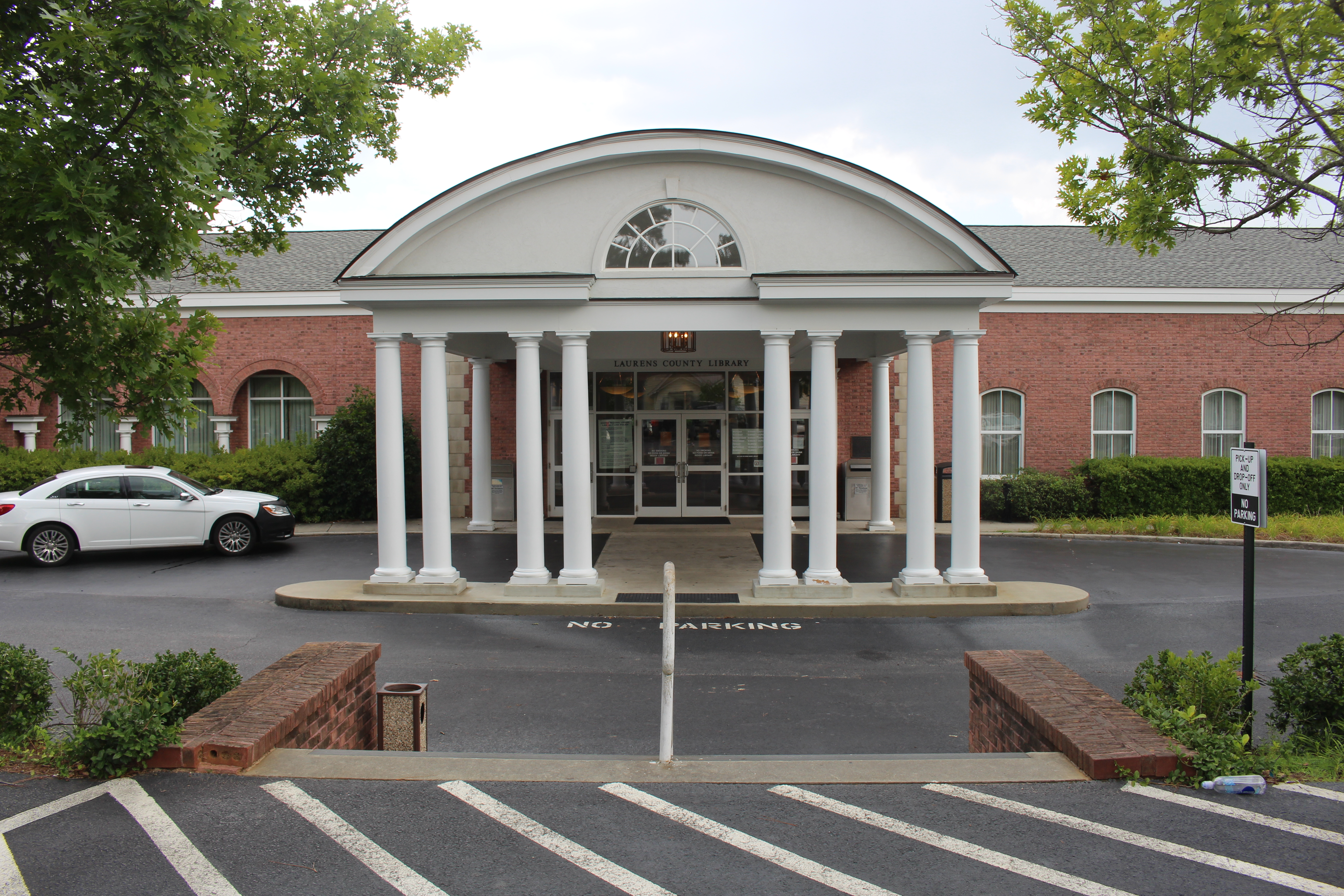 Laurens County Library, 801 Bellevue Ave, Dublin, Laurens County, Georgia